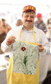 A picture of Turkish fine artist, taken with his permission.